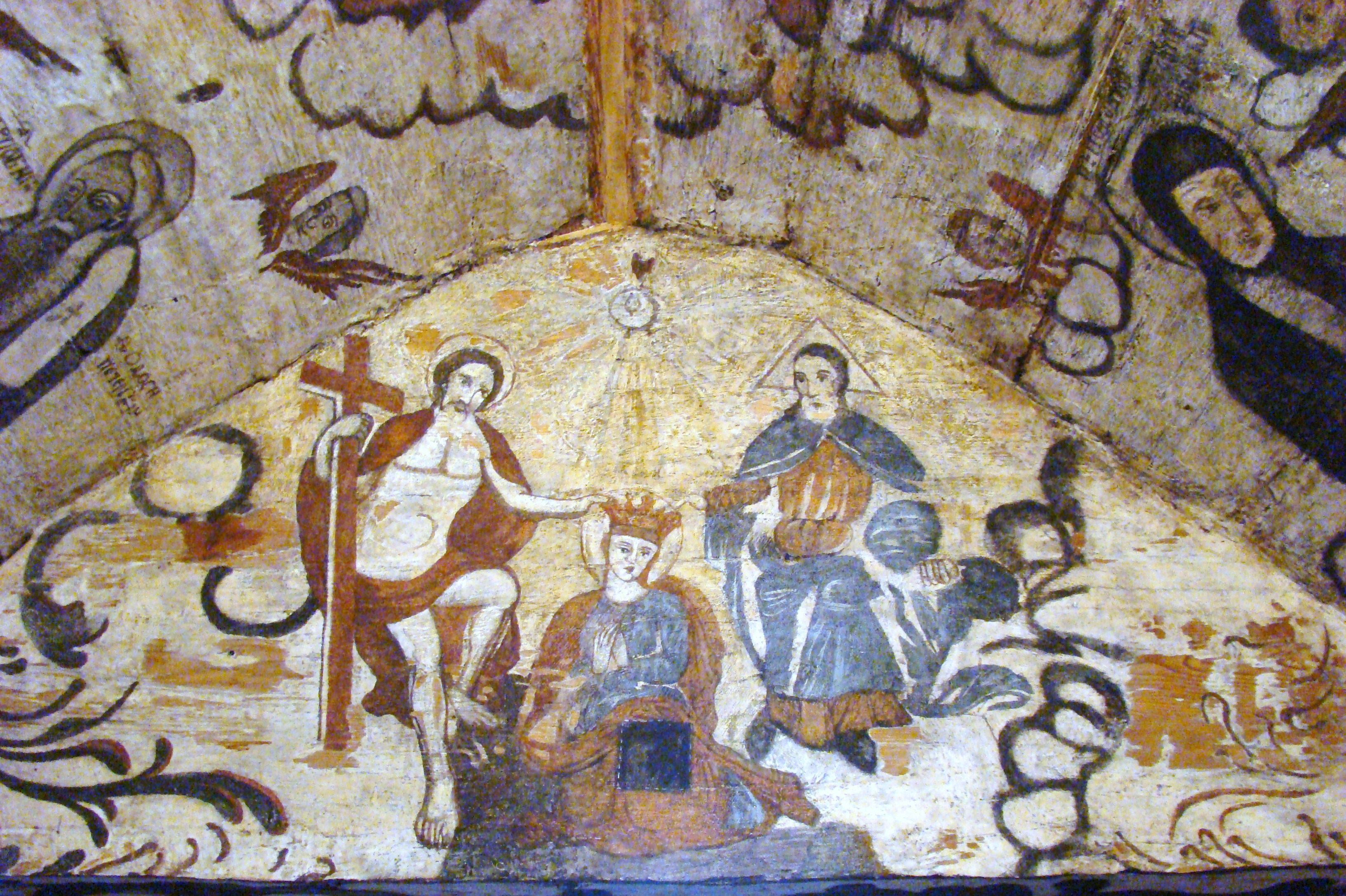 Wooden church in Borșa, Maramureș county, Romania